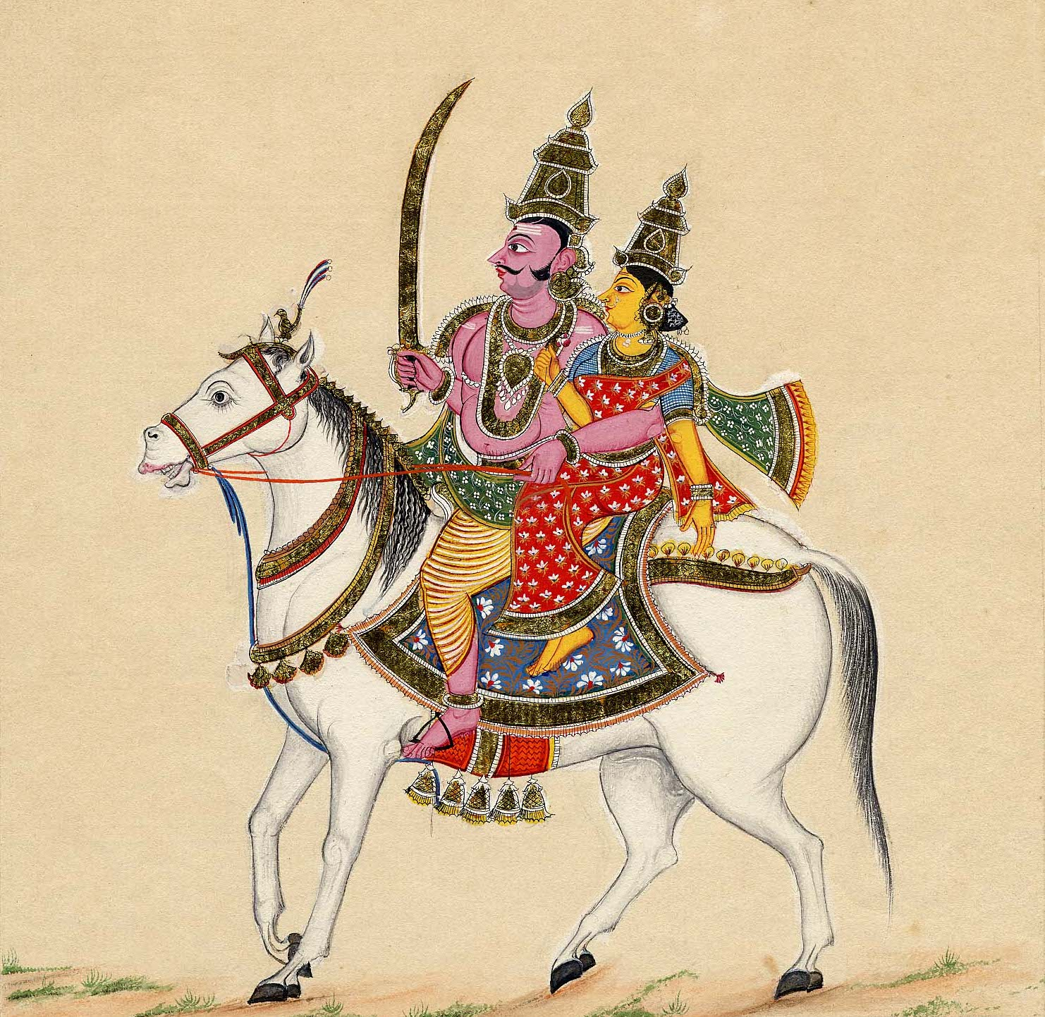 "Representation of Khandoba: Painting of a deity - perhaps Khandoba - with his consort. It is painted in Company style. The two figures are depicted crowned and riding on a caprisoned white horse. The male deity carries a sword in his right hand. An element of perspective is suggested by the lightly sketched-in foreground. On laid European paper watermarked with 'W Thomas'."